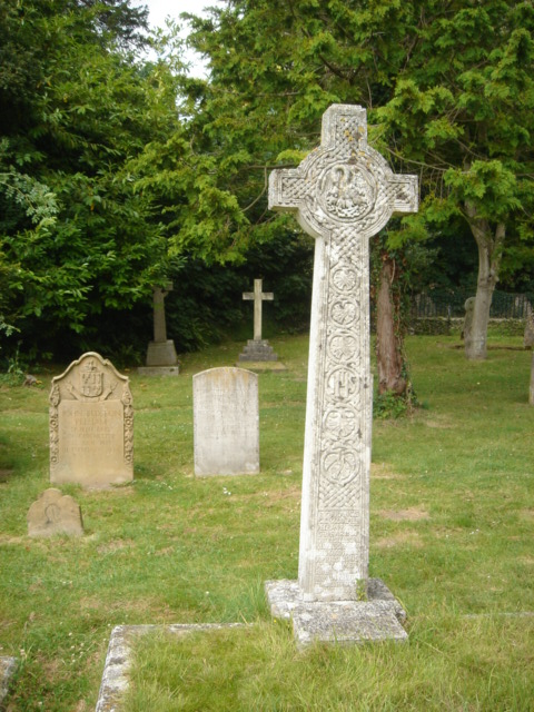 Graves in the churchyard at Stanmer Church, Stanmer, City of Brighton and Hove, England, including those of several members of the Pelham family (Earls of Chichester).